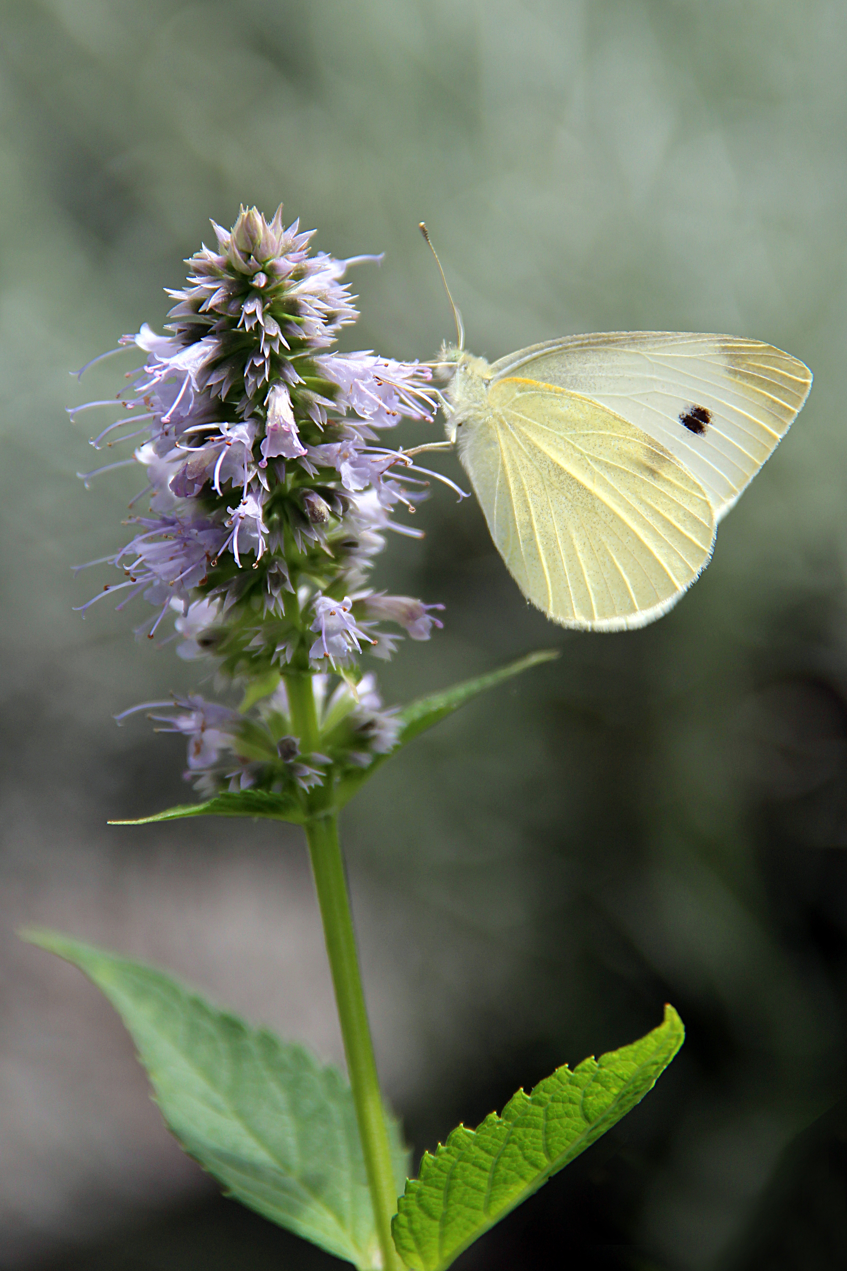 Small cabbage white (Pieris rapae) foraging flowery top of an Agastache foeniculum - Havré, Belgium